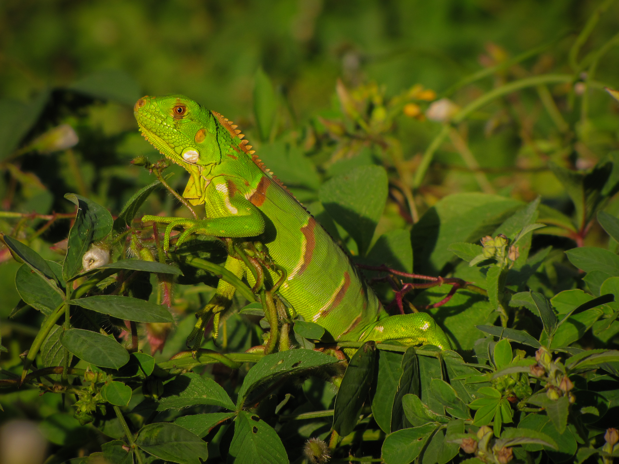 A juvenile green iguana (Iguana iguana) in Brejo da Madre de Deus, Pernambuco, Brazil